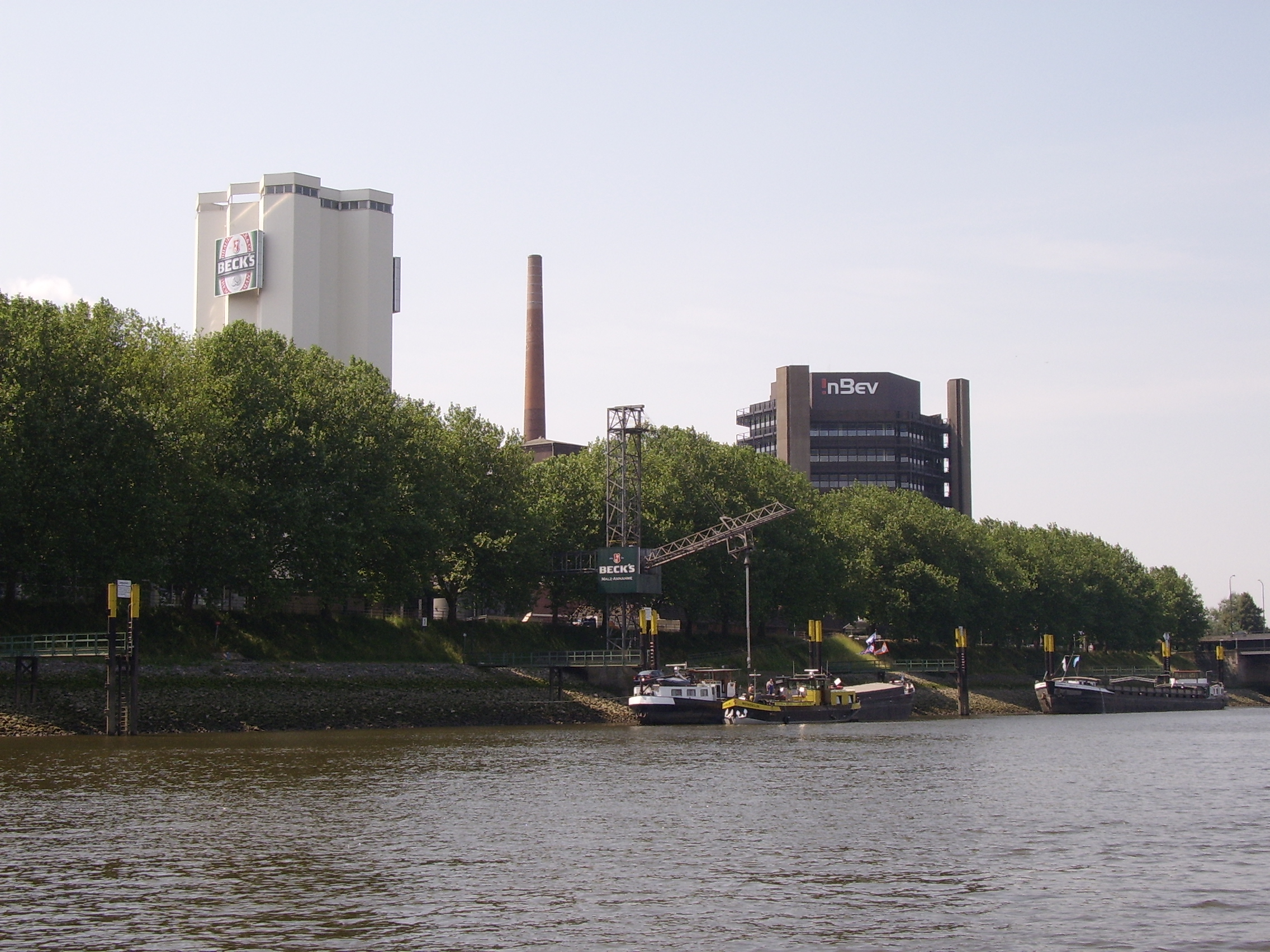 Description: Becks brewery in Bremen Date: July 13th 2005 Photographer: Doclecter